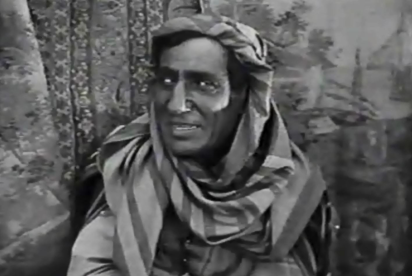 Low resolution screenshot of Sheldon Lewis in the American film serial Tarzan the Tiger (1929).